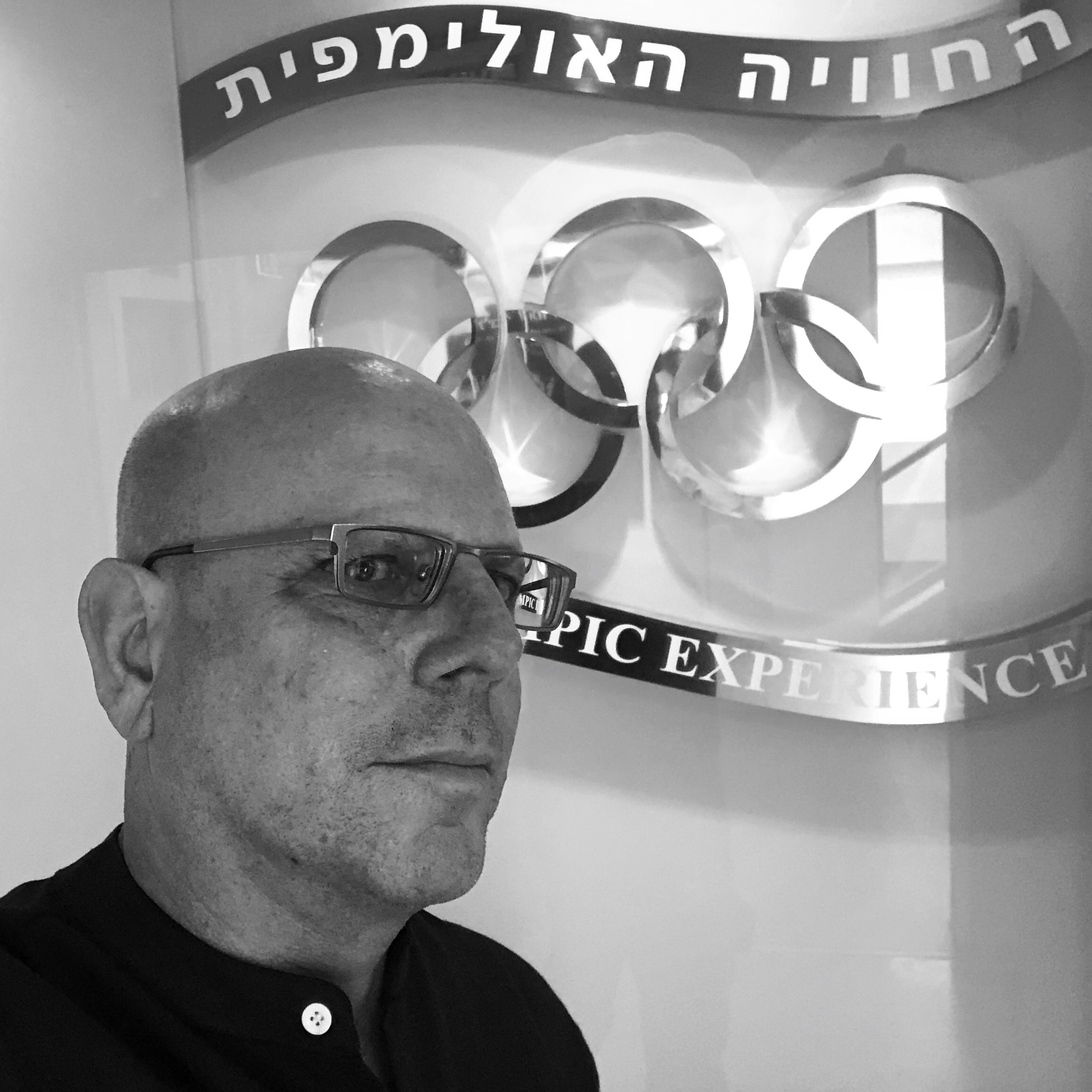 Profile